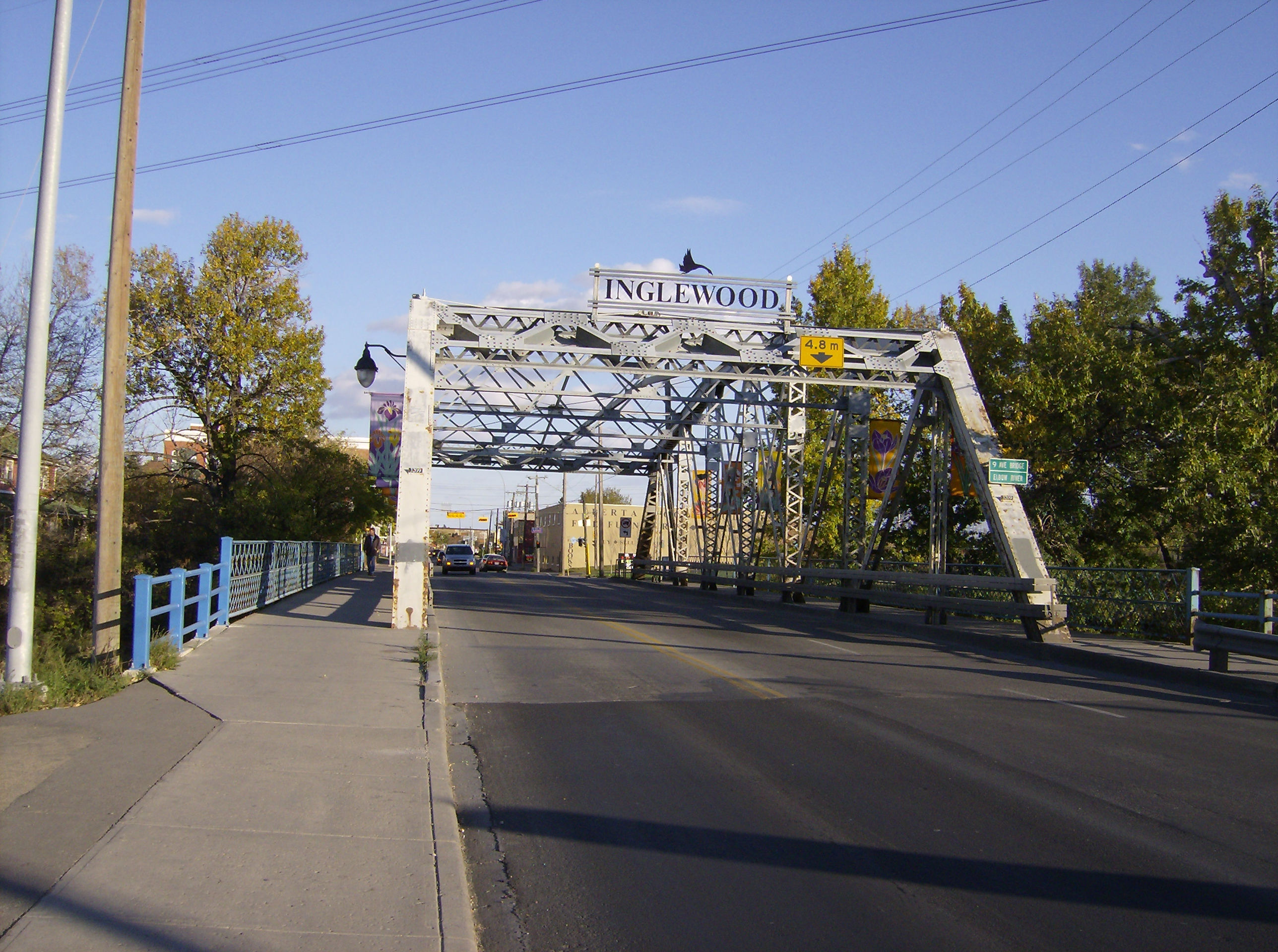 This is a picture of the 9th Avenue bridge from to Inglewood, from Downtown. The photographer is in Downtown facing East towards Inglewood.